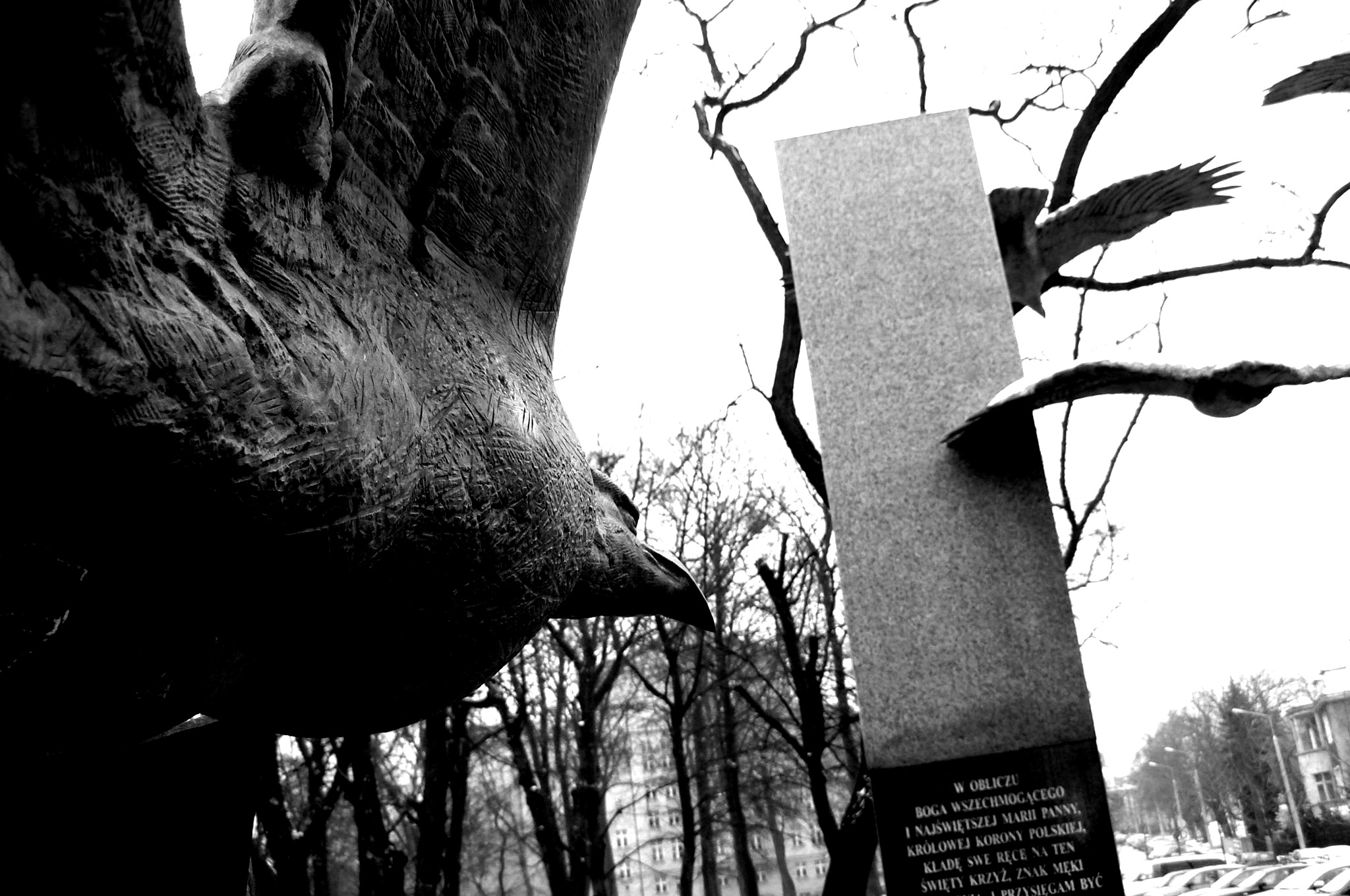 Poznan - Monument of Polish Undergrund State. Detail.